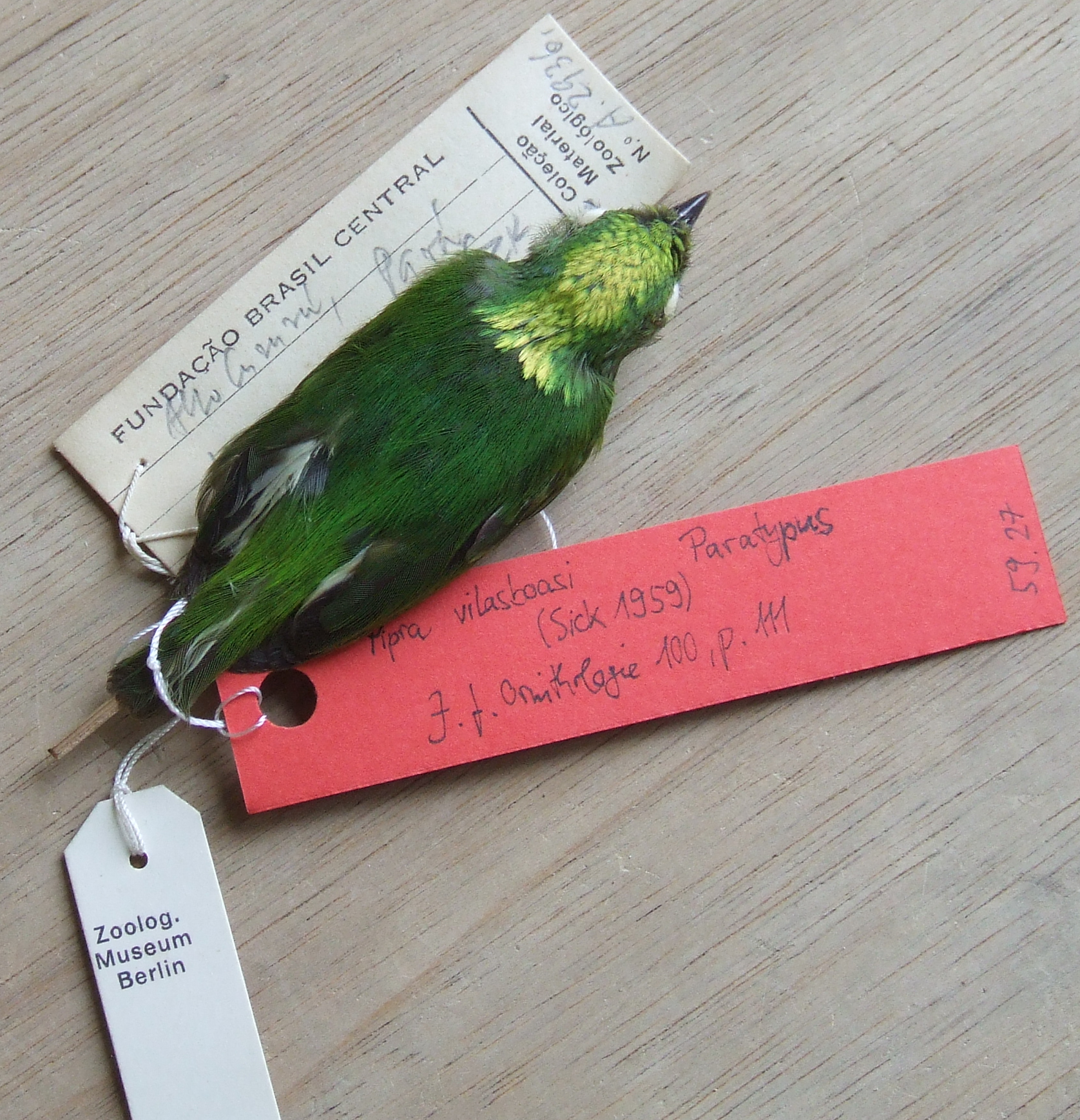 Paratype male of Lepidothrix vilasboasi, Museum für Naturkunde Berlin specimen 59.27.